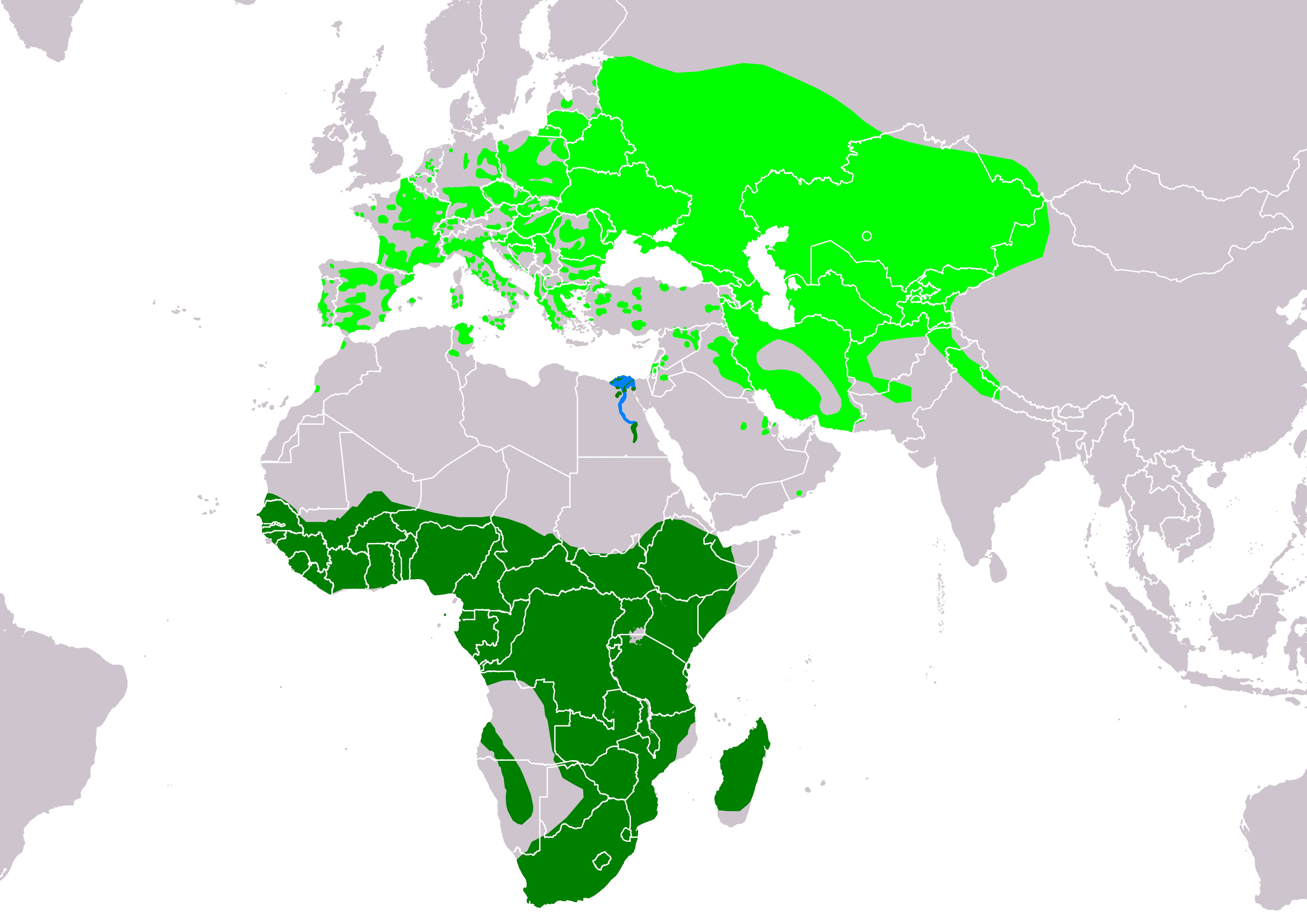 Map of common little bittern (Ixobrychus minutus) according to IUCN 2018.2 , Legend: Extant, breeding (#00FF00), Extant, resident (#008000), Extant, non-breeding (#007FFF)